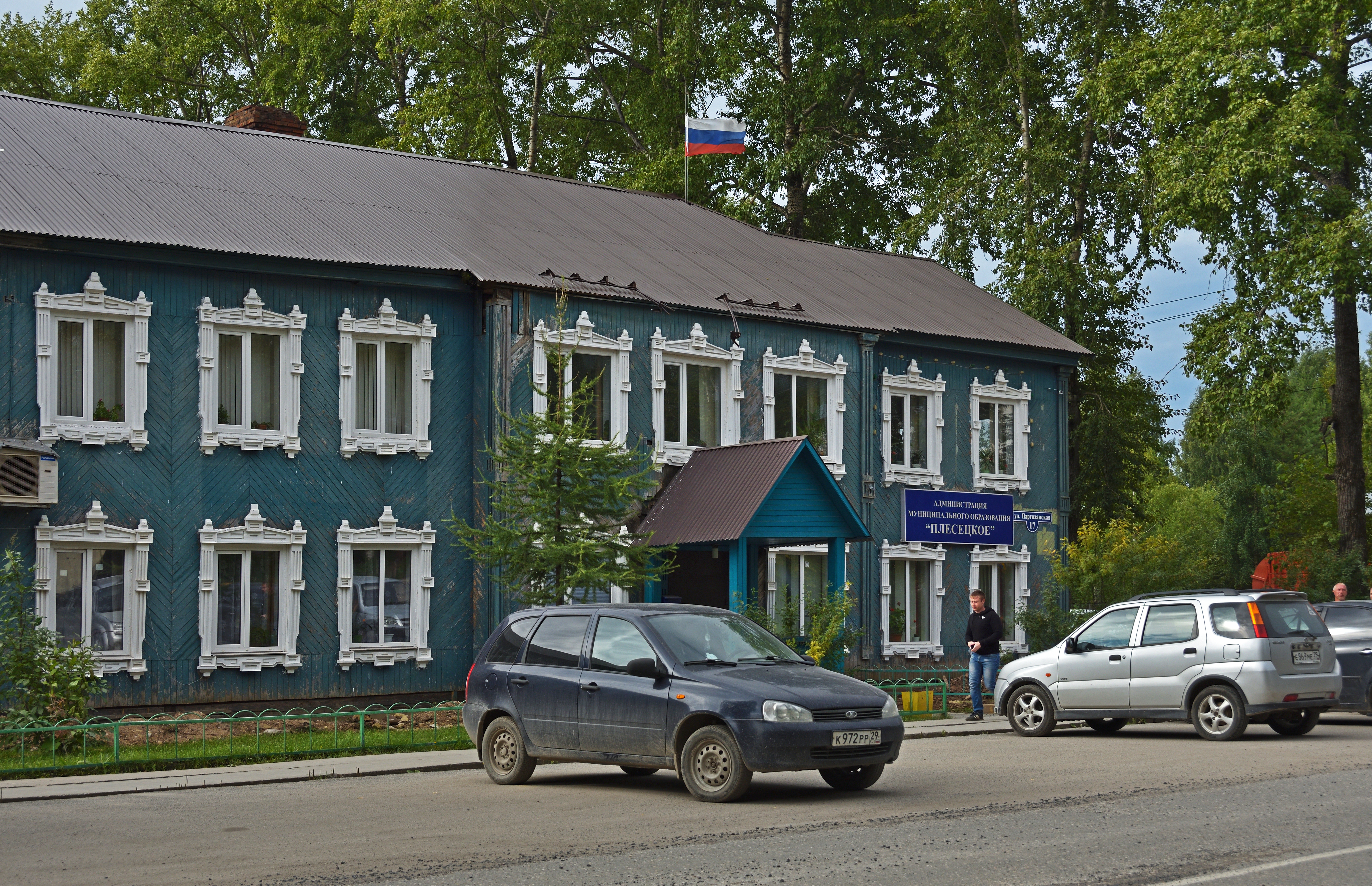 City Administration building -- Partizanskaya street 17, Plesetsk, Arkhangelsk oblast, Russia